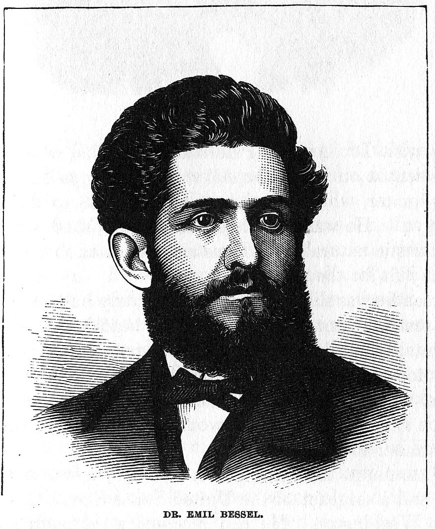 Engraving of Dr. Emil Bessels